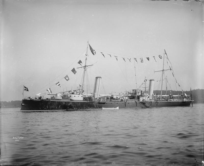 Photograph of Italian torpedo cruiser Aretusa.